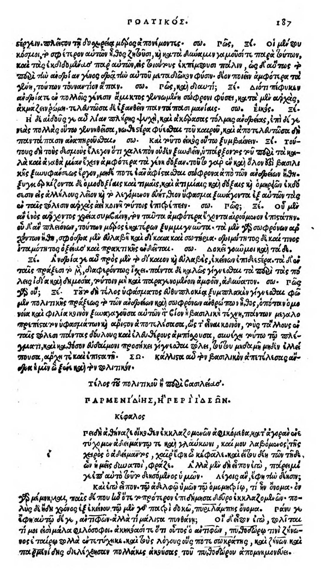 Parmenides beginning. Editio princeps, Venice 1513.